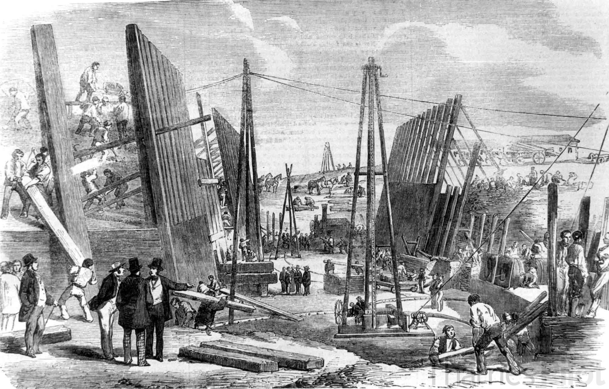 The building of Victoria docks, 1854